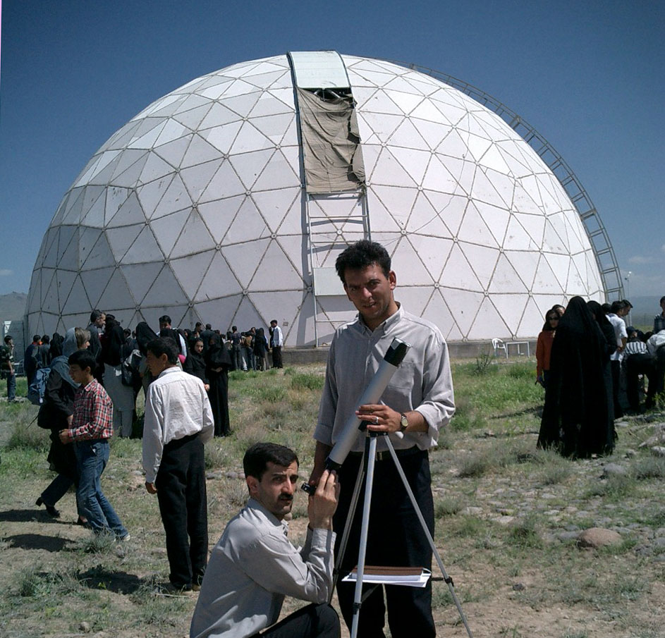 This picture was taken during the Venus Transit of 2004, at the top of the Observatory Hill in the city of Maragheh, Iran.